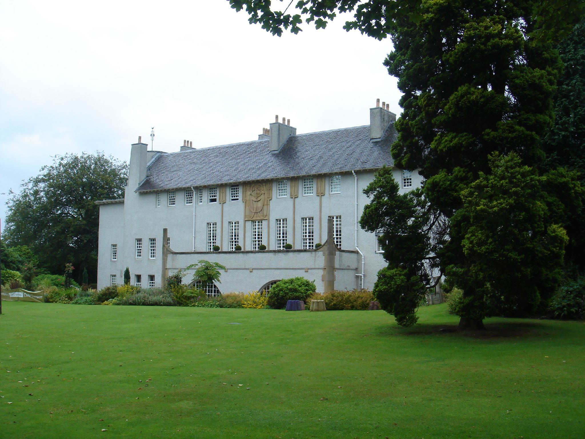 House for an Art Lover designed by Charles Rennie Macintosh, Bellahouston Park in Glasgow.